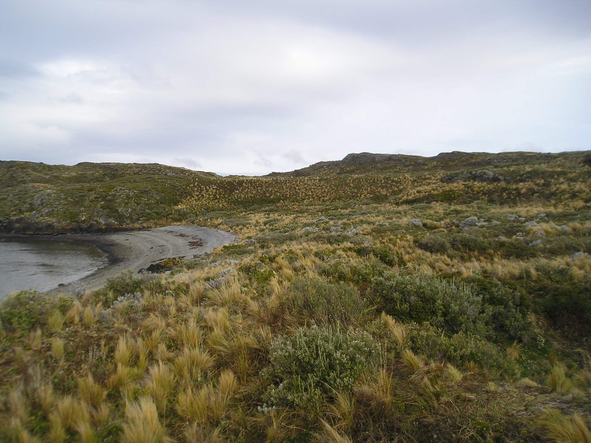 Uninhabited IslaB ridges in the Beagle Channel near Ushuaia, Argnetinian Tierra del Fuego